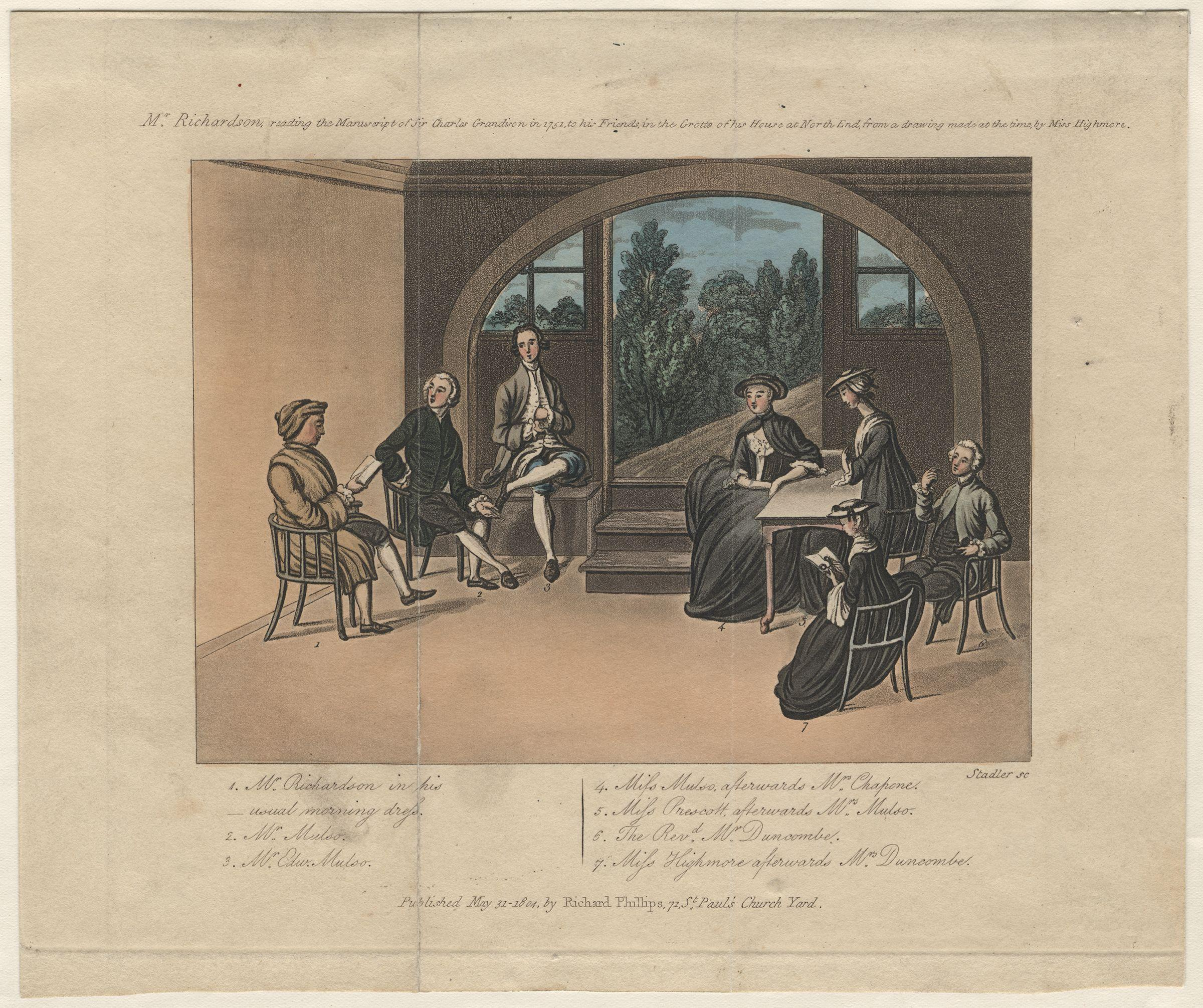 Samuel Richardson, by Miss Highmore, published 1804. According to the NPG's website the work was published prior to 1859, and so the author is reasonably presumed dead by 1939.